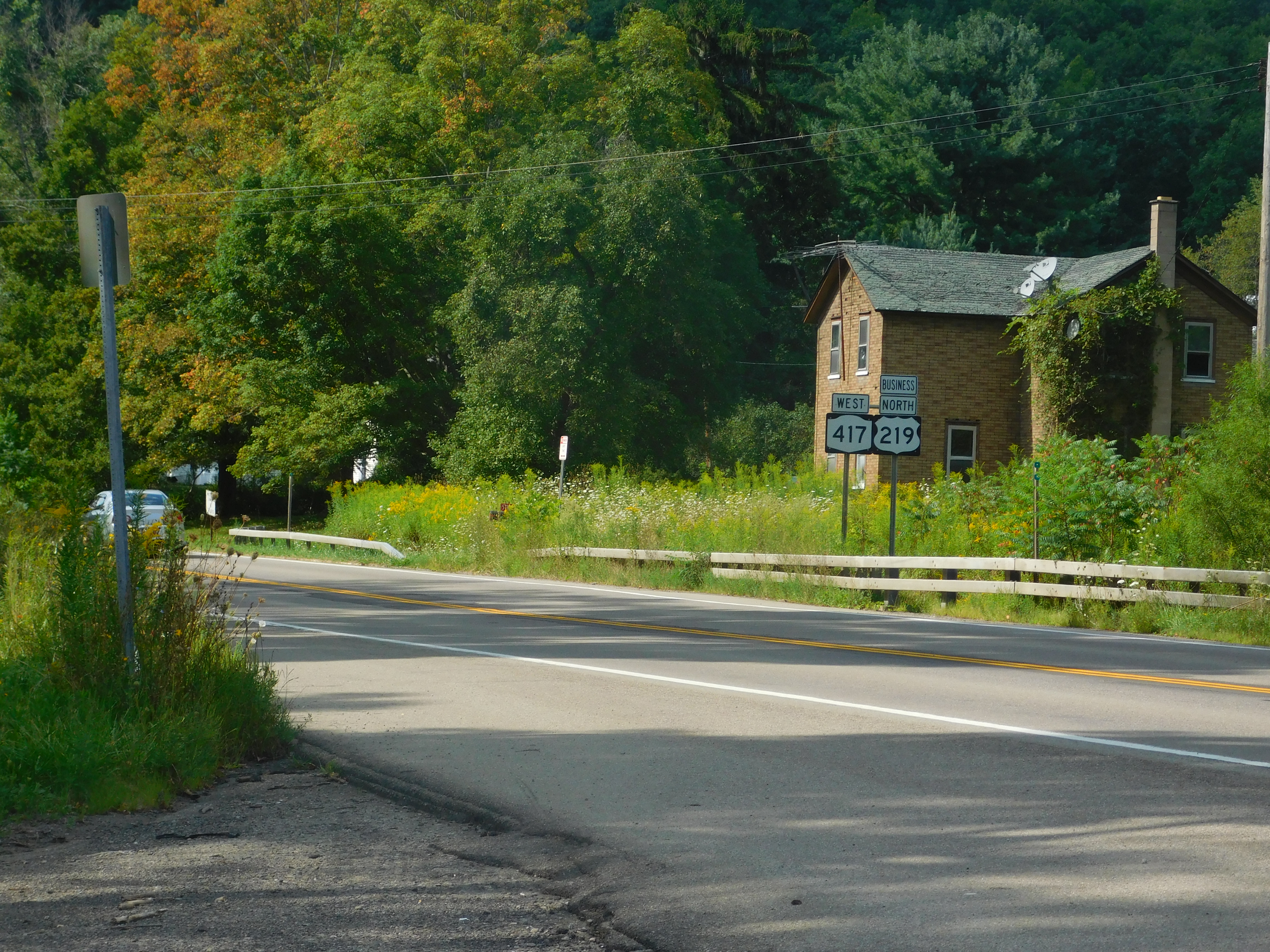 NY 417 and U.S. Route 219 Business in Carrollton, New York.